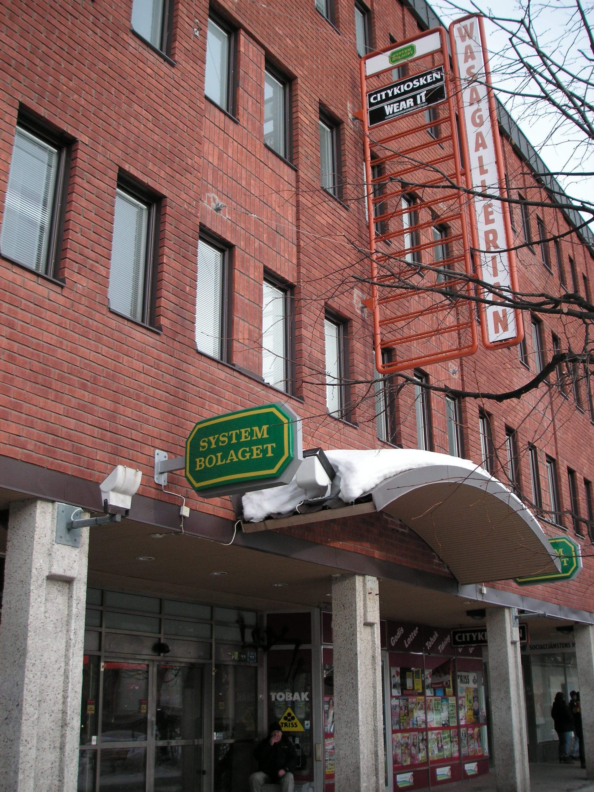 Shopping mall Wasagallerian in Umeå, Sweden.